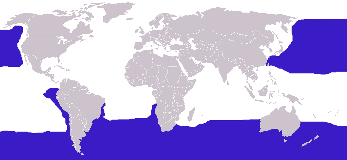 Range map of the albatrosses, Diomedeidae